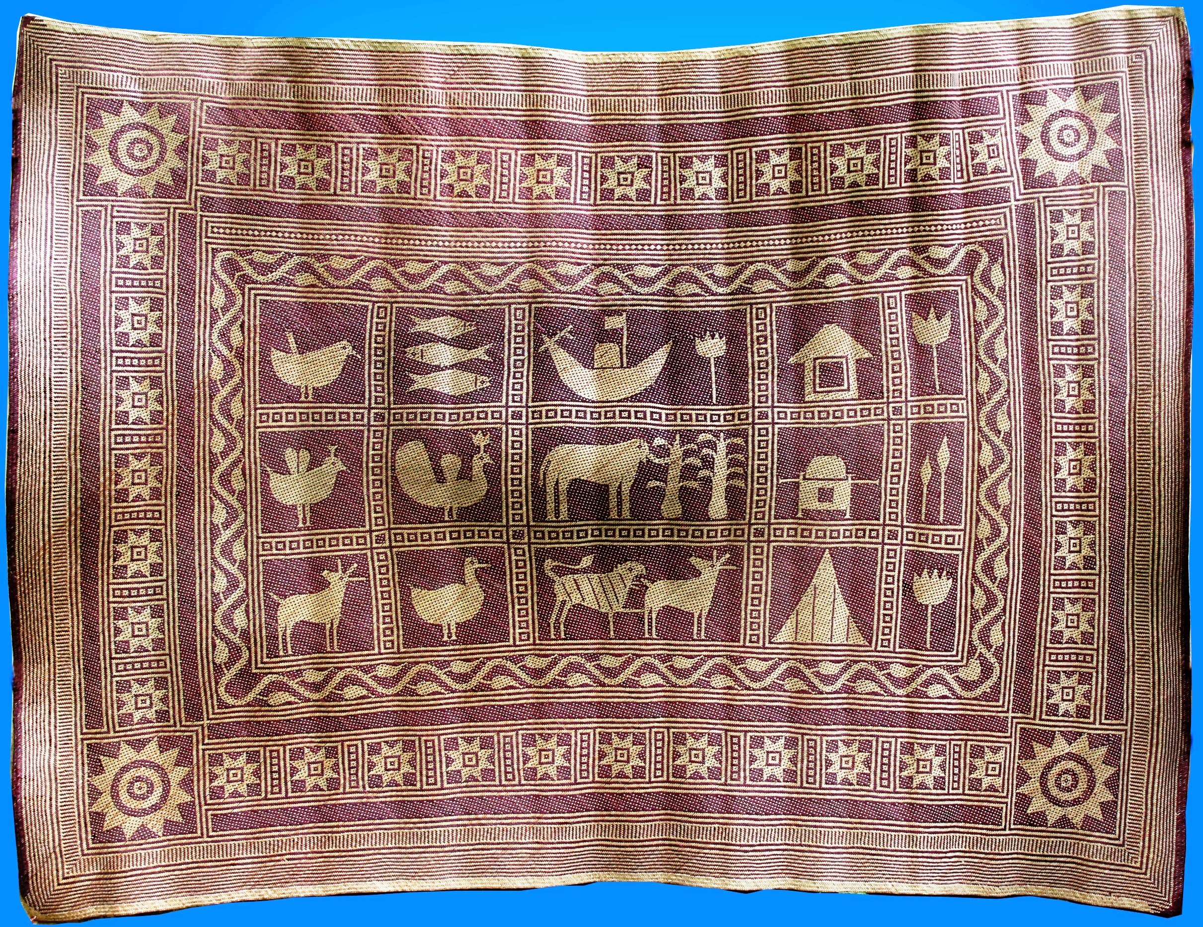 Sheetal Pati (Cane mat), made in Sunamganj area of Bangladesh